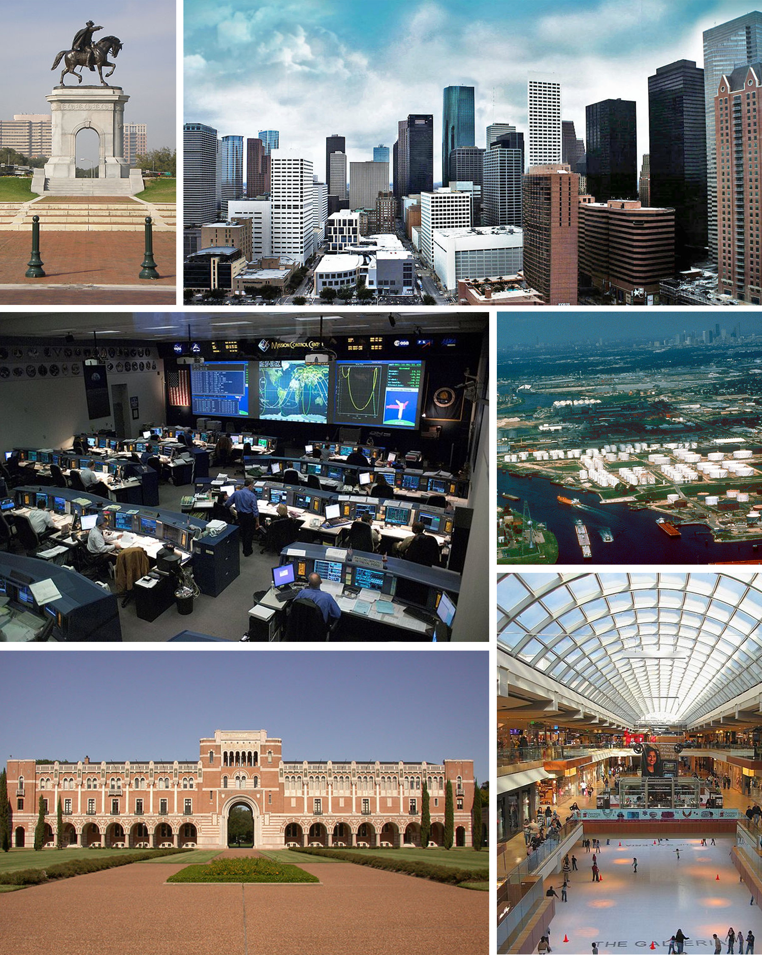 Montage of Houston images. From top to bottom left to right: The Sam Houston monument, (in or near Hermann Park) Houston skyline Mission Control Center Houston Ship Channel Rice University The Galleria